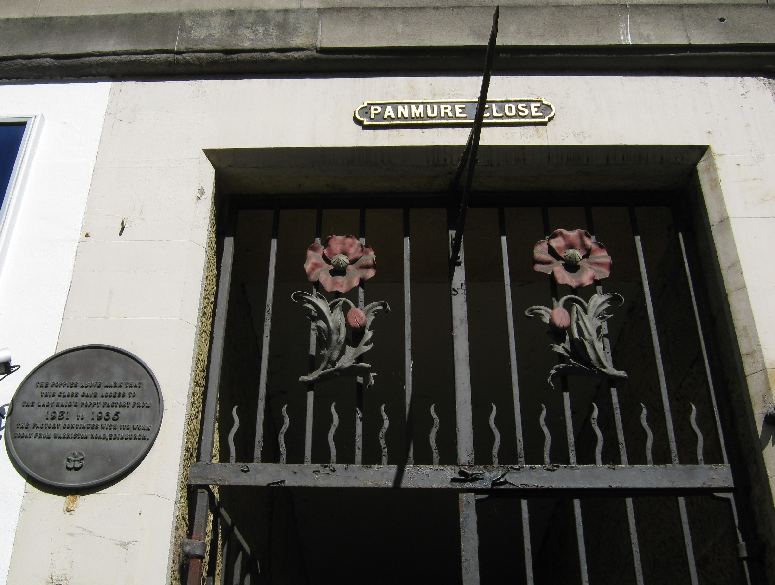 The poppies above mark that this close gave access to the Lady Haig's poppy factory from 1931 to 1965. The factory continues with its work today from Warriston Road, Edinburgh.